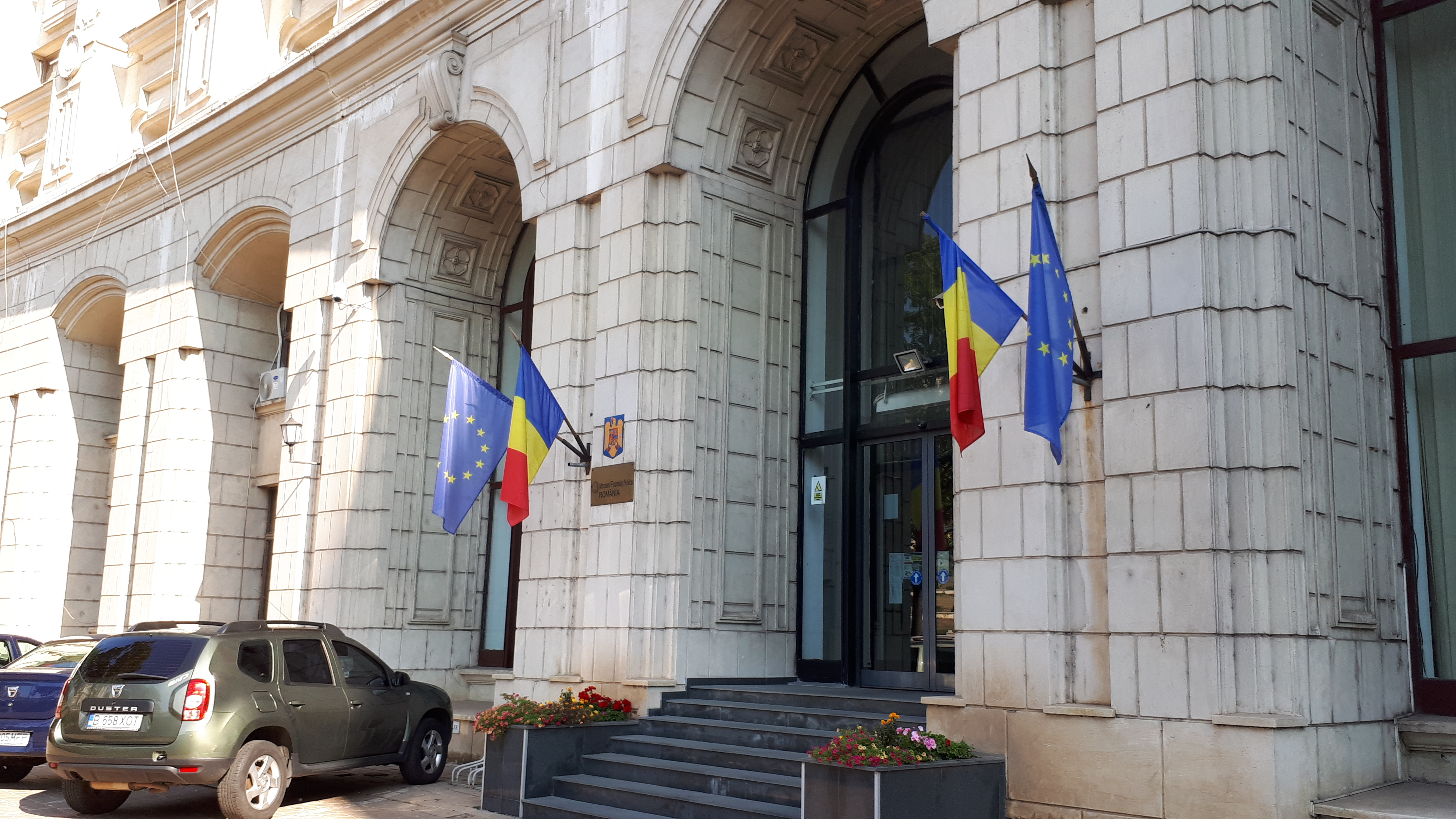 Ministerul Finanţelor Publice. Strada Apolodor nr. 17